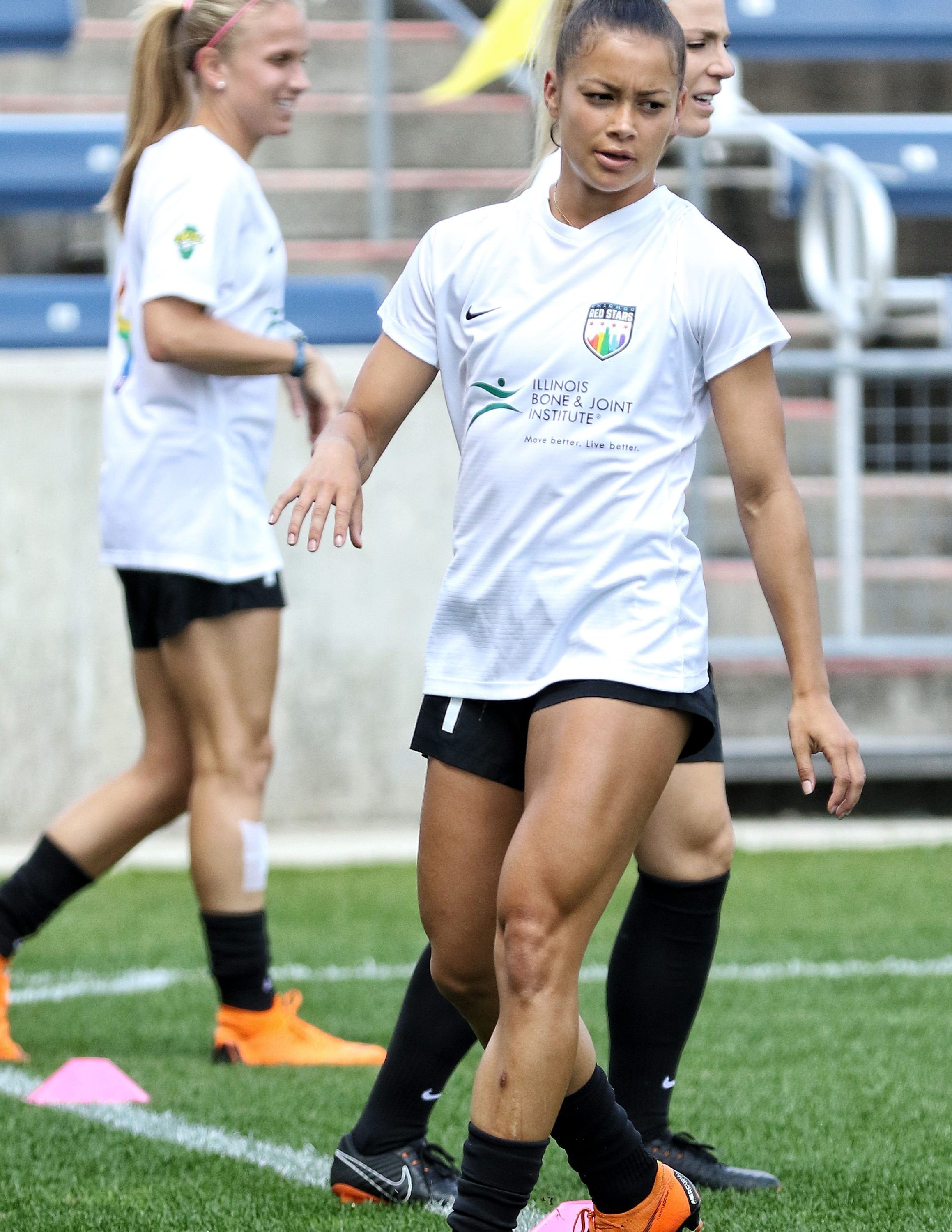 Sarah Gorden getting ready to play against orlando on May 26, 2018